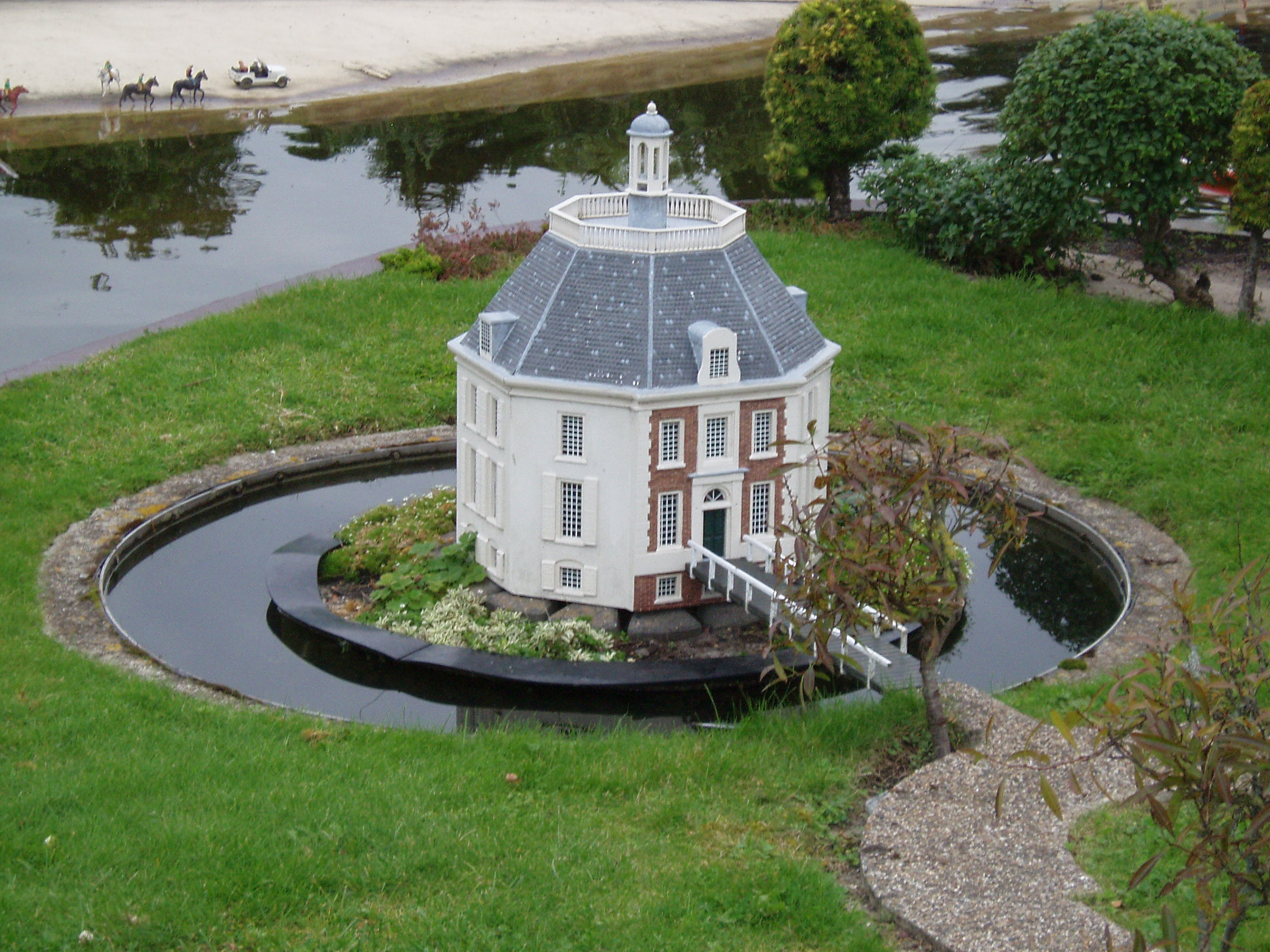 Madurodam in the Hague in the Netherlands; Model of Kasteel Drakensteyn in Lage Vuursche